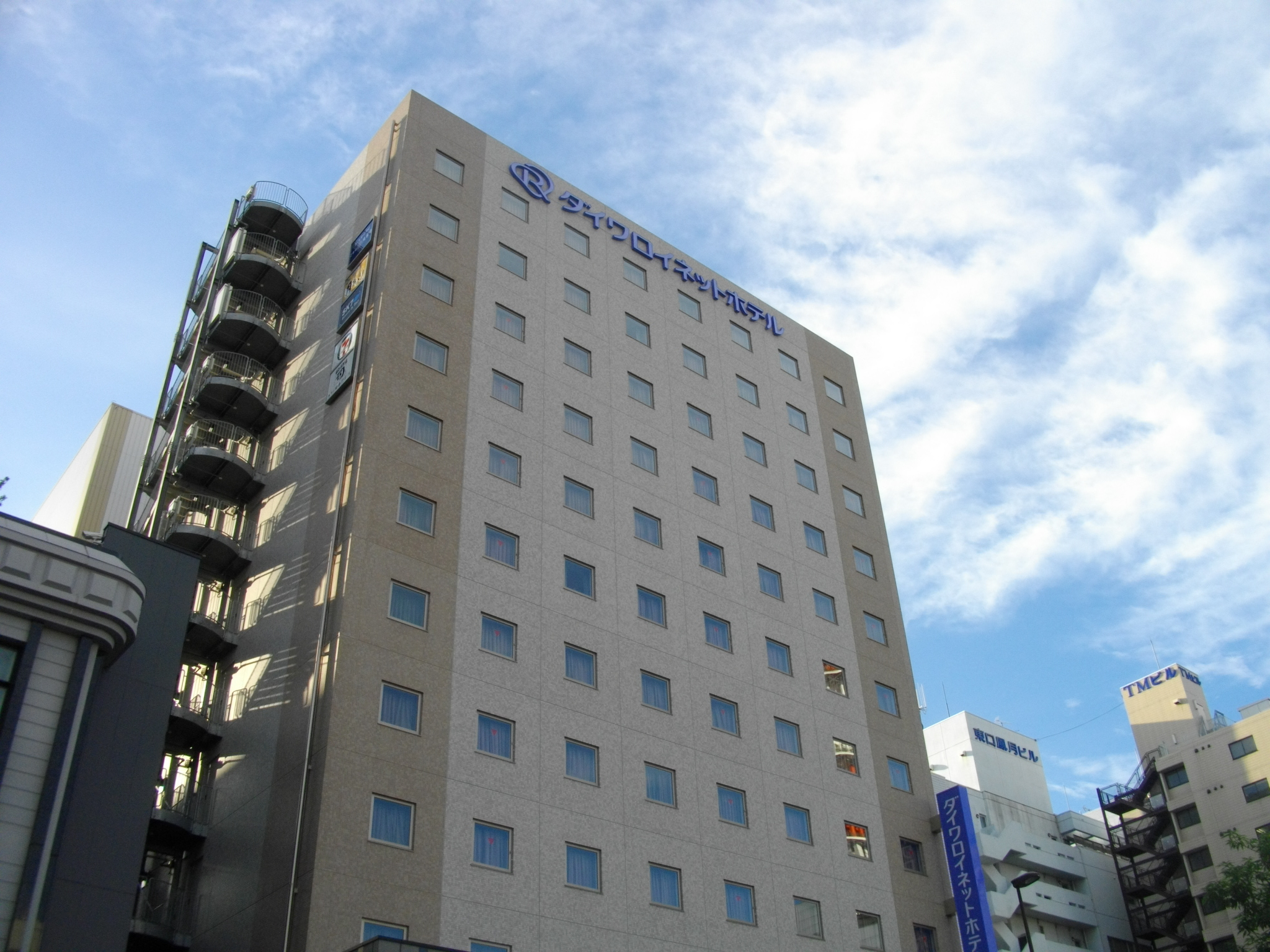 Daiwa Roynet Hotel Sendai